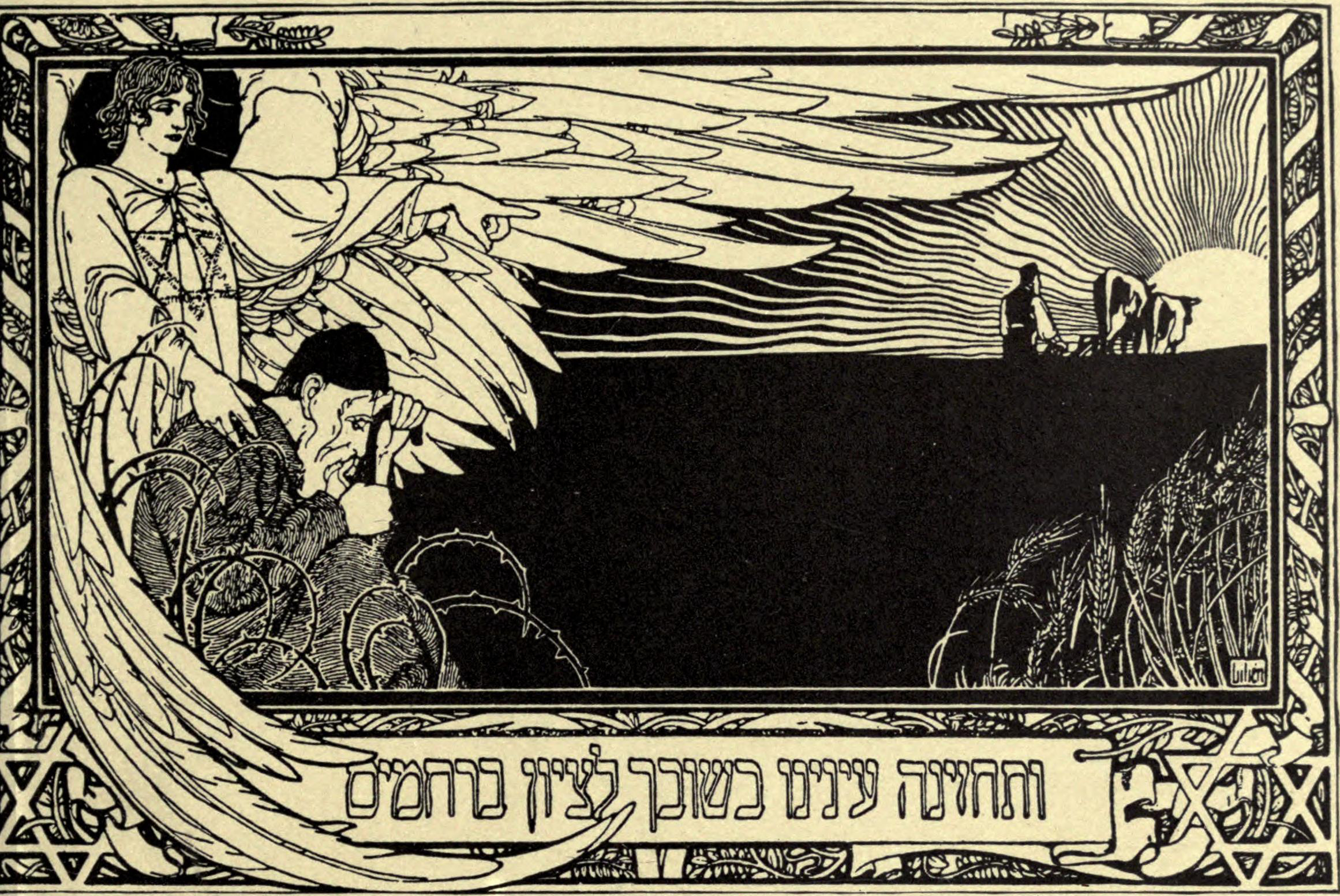 Engraving by Ephraim Moshe Lilien, produced for the 5th Zionist Congress, which took place in Basel, Switzerland in 1901. The Hebrew inscription at the bottom is the prayer “May our eyes behold your return in mercy to Zion.”